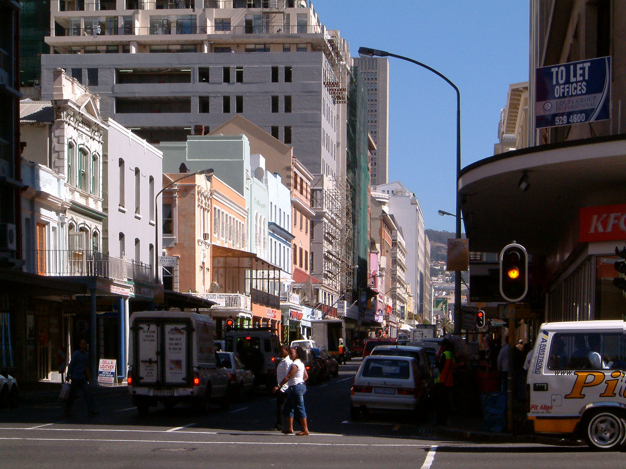 Long Street (Cape Town)